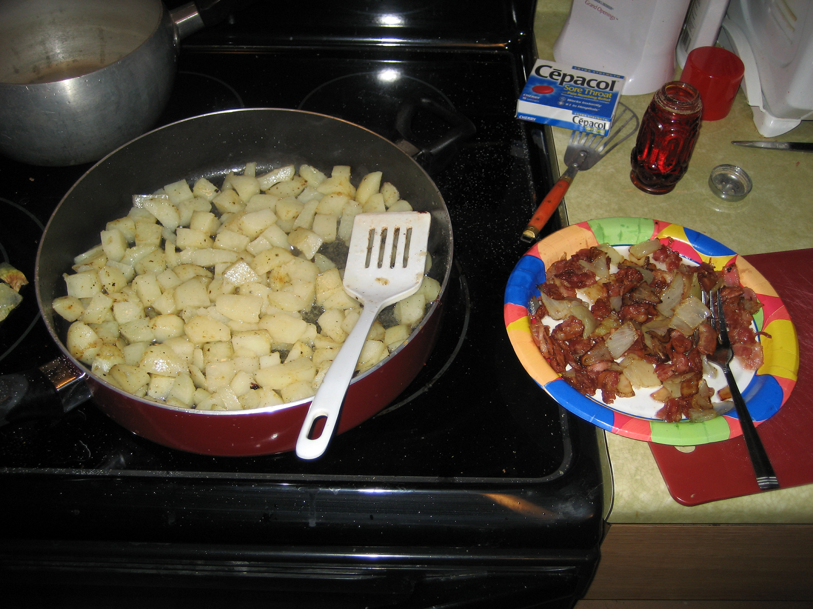 Sautéeing potatoes (big pan) and Sautéed onions and bacon (plate) for making Bratkartoffeln.